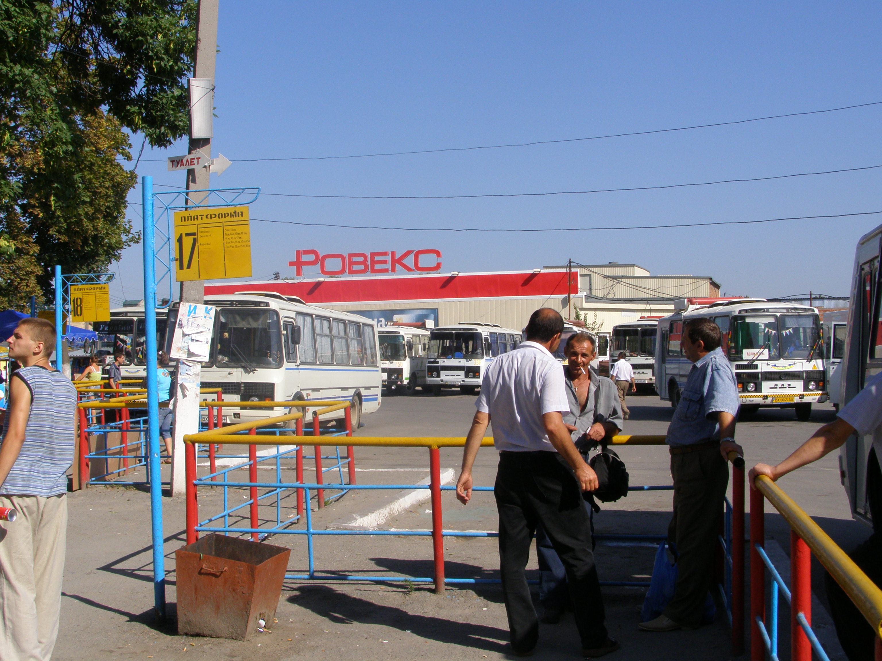 Bus station in Kamianets-Podilskyi (Кам'янець-Подільський), Ukraine